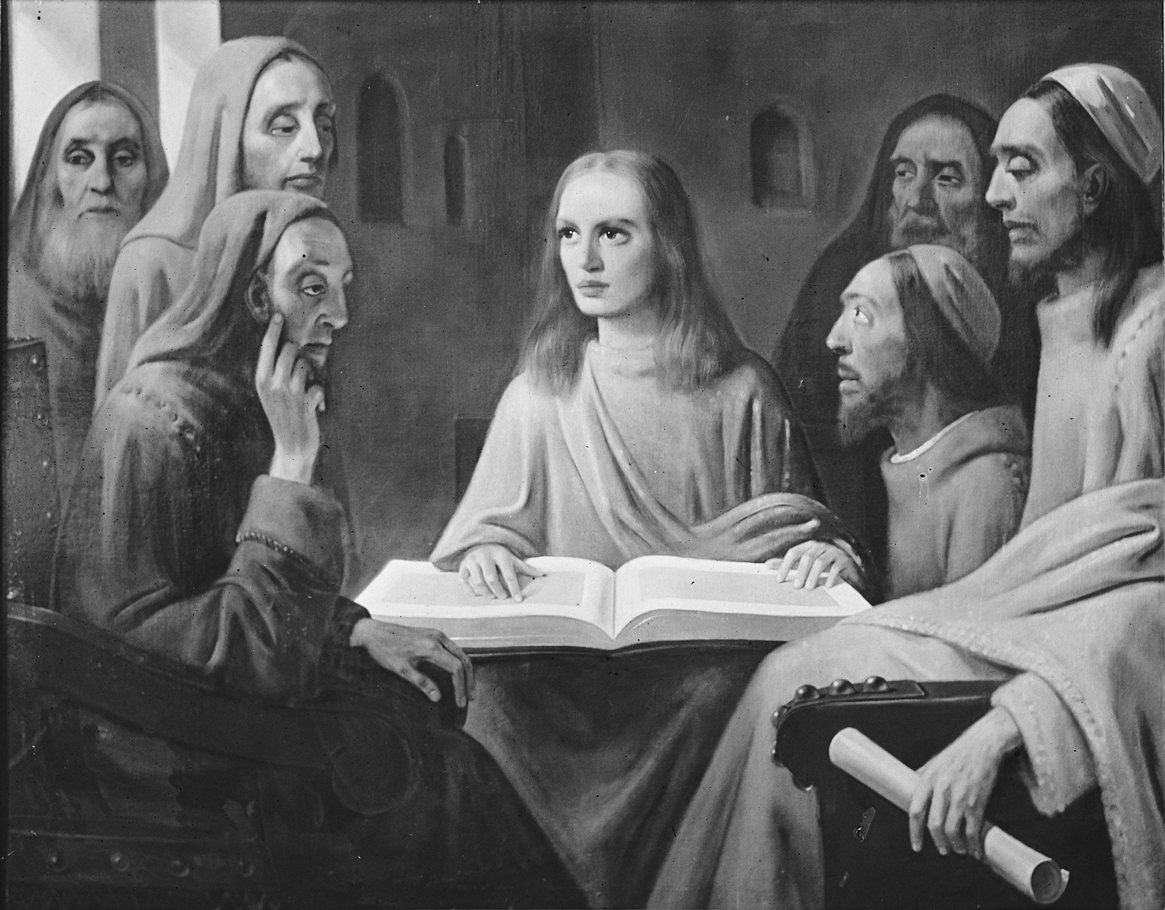 In May 1945, the Allied forces questioned banker and art dealer Alois Miedl regarding the newly discovered Vermeer. Based on Miedl's confession, the painting was traced back to van Meegeren. On 29 May 1945, he was arrested and charged with fraud and aiding and abetting the enemy. He was remanded to Weteringschans prison. As an alleged Nazi collaborator and plunderer of Dutch cultural property, van Meegeren was threatened by the authorities with extensive prison time. Faced with these bleak choices, and after spending three days in jail, he confessed to forging paintings attributed to Vermeer and Pieter de Hooch. He exclaimed, "The painting in Göring’s hands is not, as you assume, a Vermeer of Delft, but a Van Meegeren! I painted the picture!" It took some time to verify this and for several months he was detained in the Headquarters of the Military Command at Herengracht 468 in Amsterdam. Between July and about November/December 1945, and in the presence of reporters and court-appointed witnesses, he painted his last forgery, of Jesus among the Doctors, also called Young Christ in the Temple in the style of Vermeer. After the trial painting was finished, he was transferred to the fortress prison Blauwkapel. Van Meegeren was released from prison in January or February 1946.